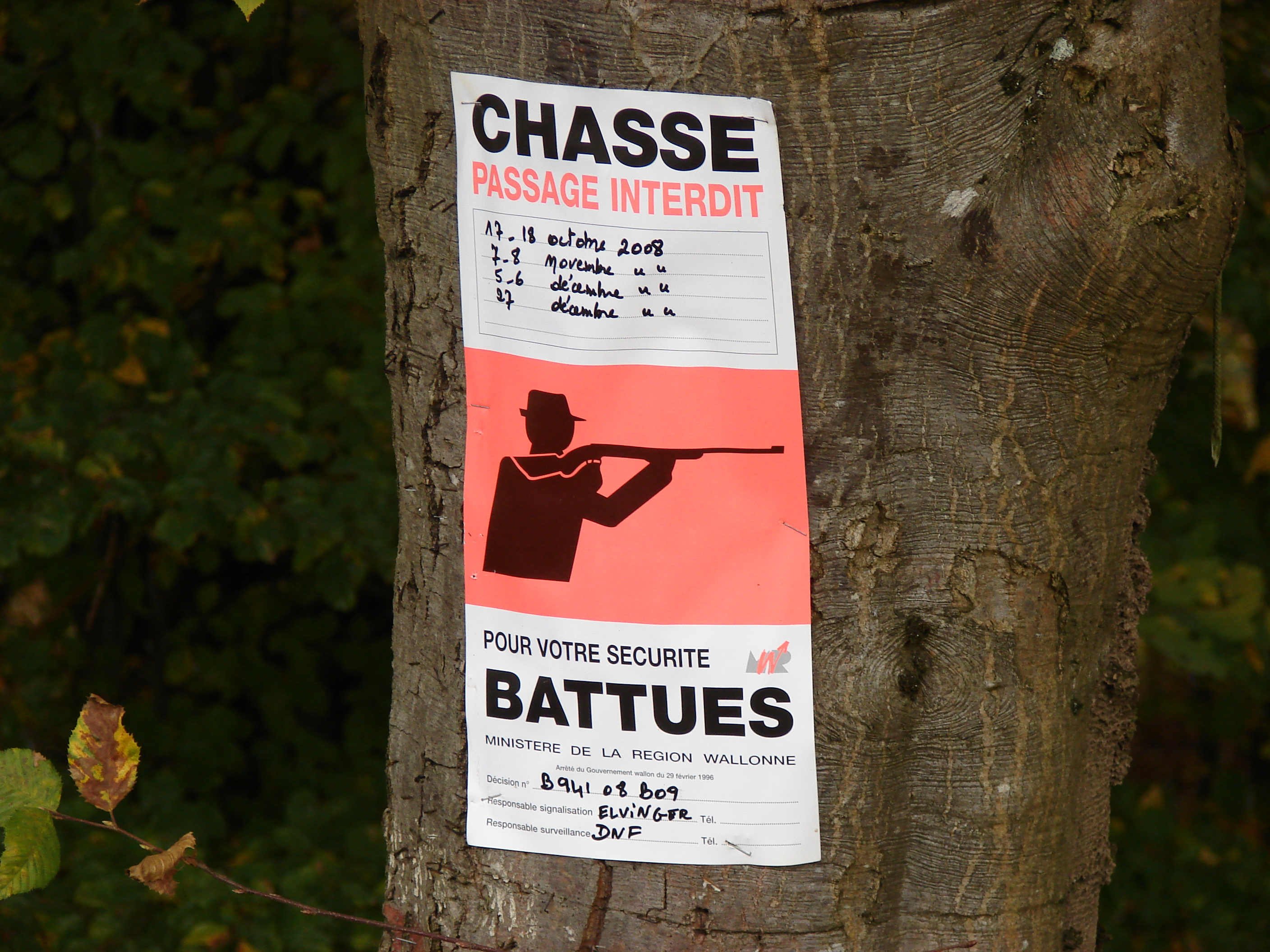 Driven hunting warning sign in Wallonia